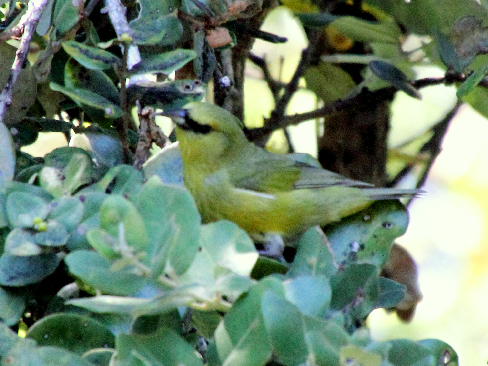 Hawaii Amakihi (Chlorodrepanis virens virens)